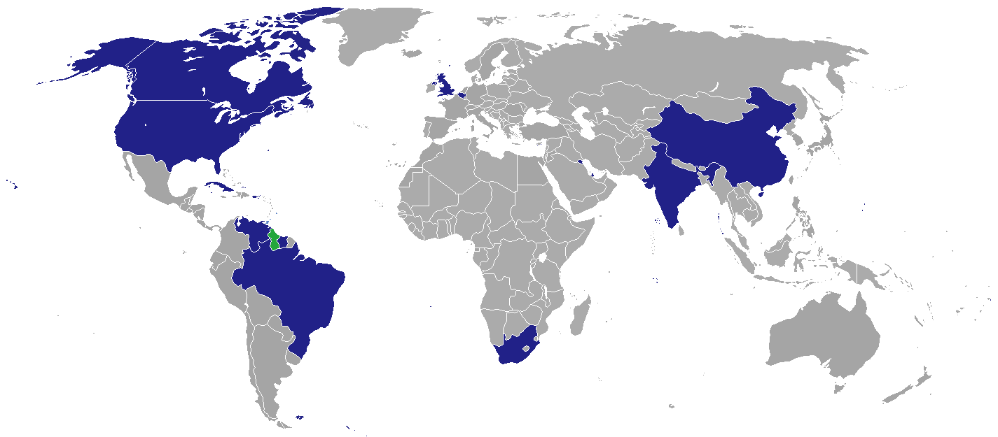 Map of countries with Guyanese embassies Guyana Embassy